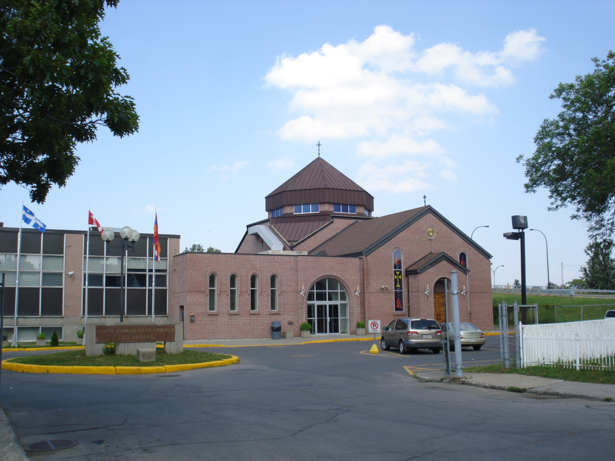 Sourp Hagop Armenian Apostolic Cathedral of Montreal